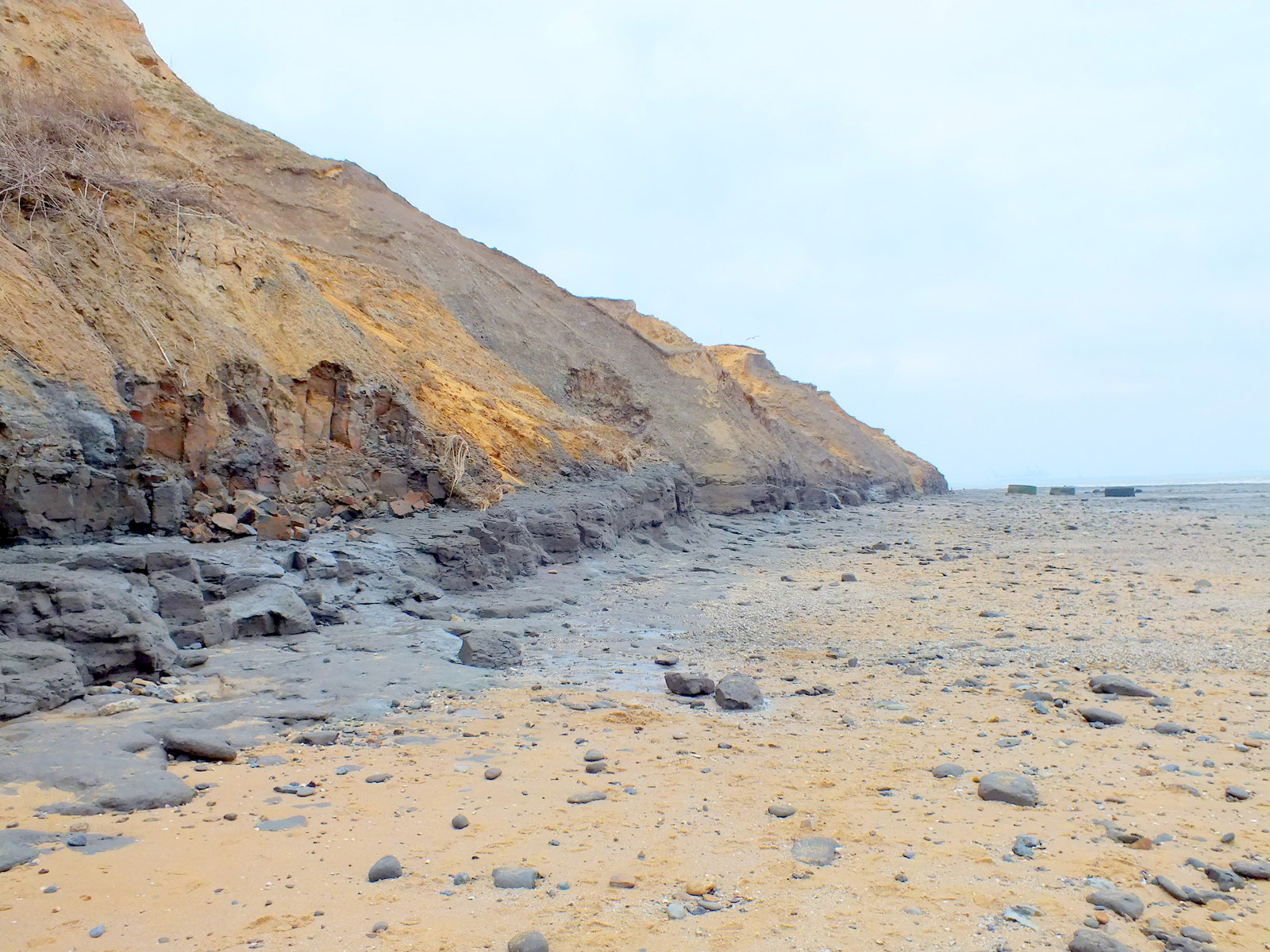 Naze Cliffs, Walton-on-the-Naze, Essex. This photograph shows the devastating effect of the constant east/north east winds of late. The beach is scoured away exposing the cliff to erosion. The base of the cliff is formed of London Clay, the upper part is formed of Red Crag